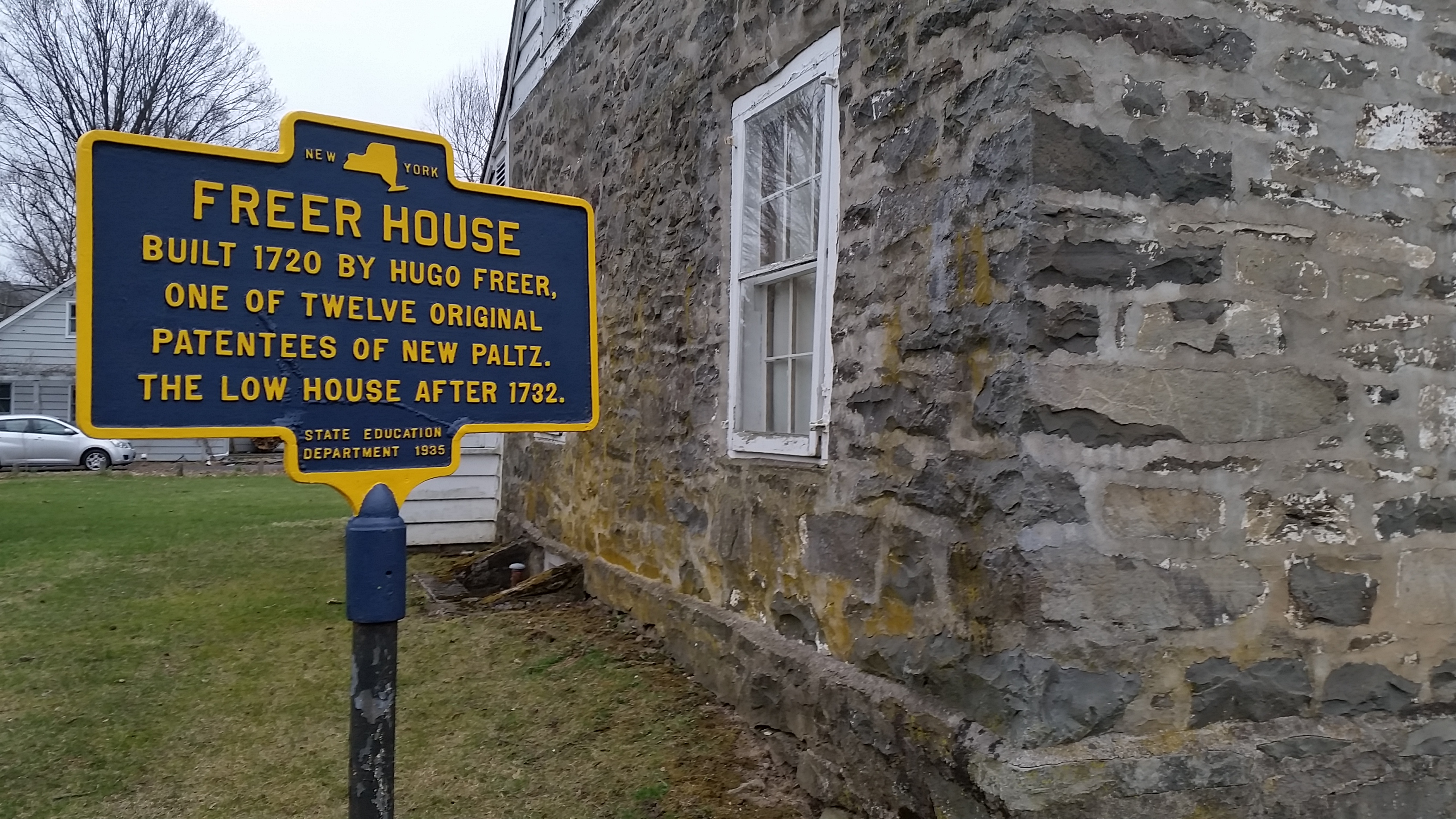 NY State Historic Marker at New Paltz's Huguenot Street Historic District for the Freer House